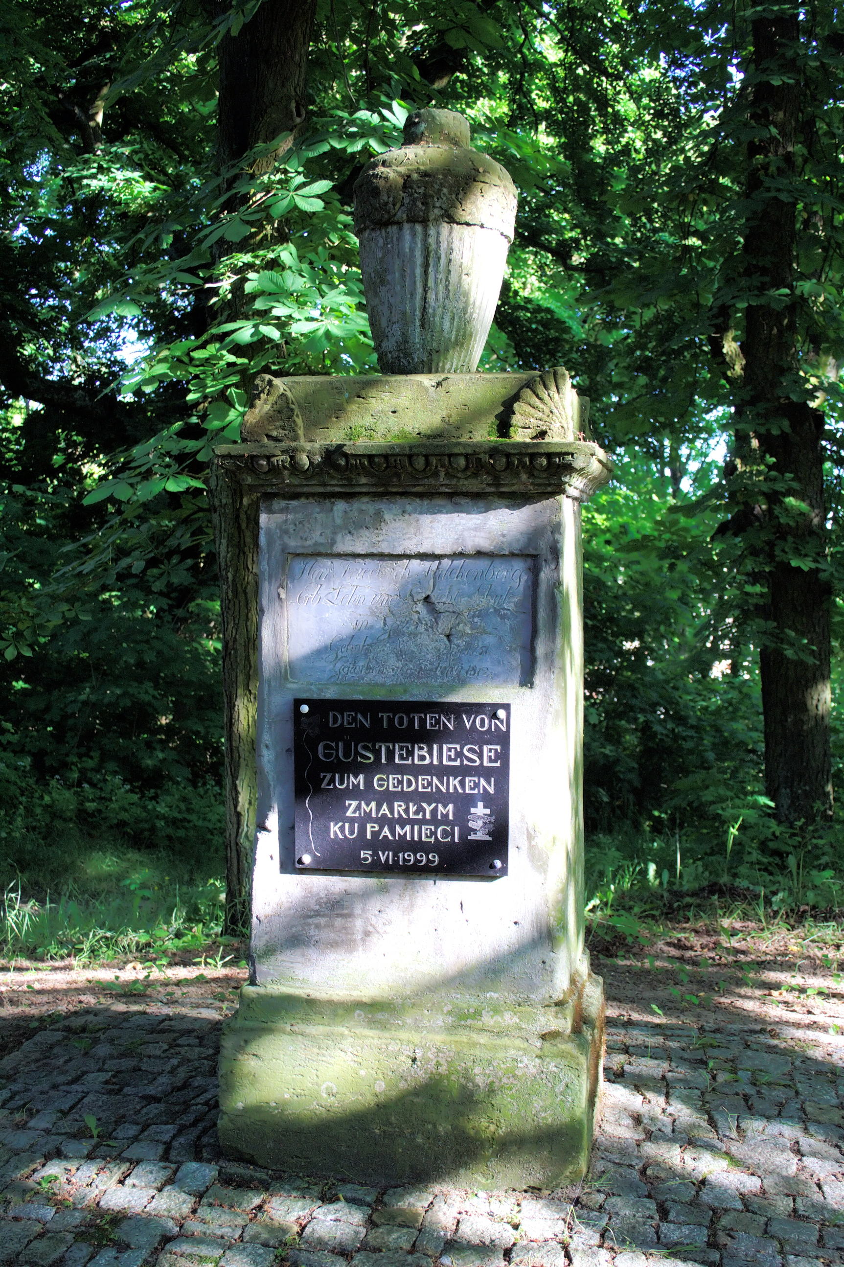 The tombstone of the village-mayor of Güstebiese Friedrich Falkenberg (1751-1812), standing next to the church with a plaque commemorating the dead inhabitants of Gozdowice (1999).